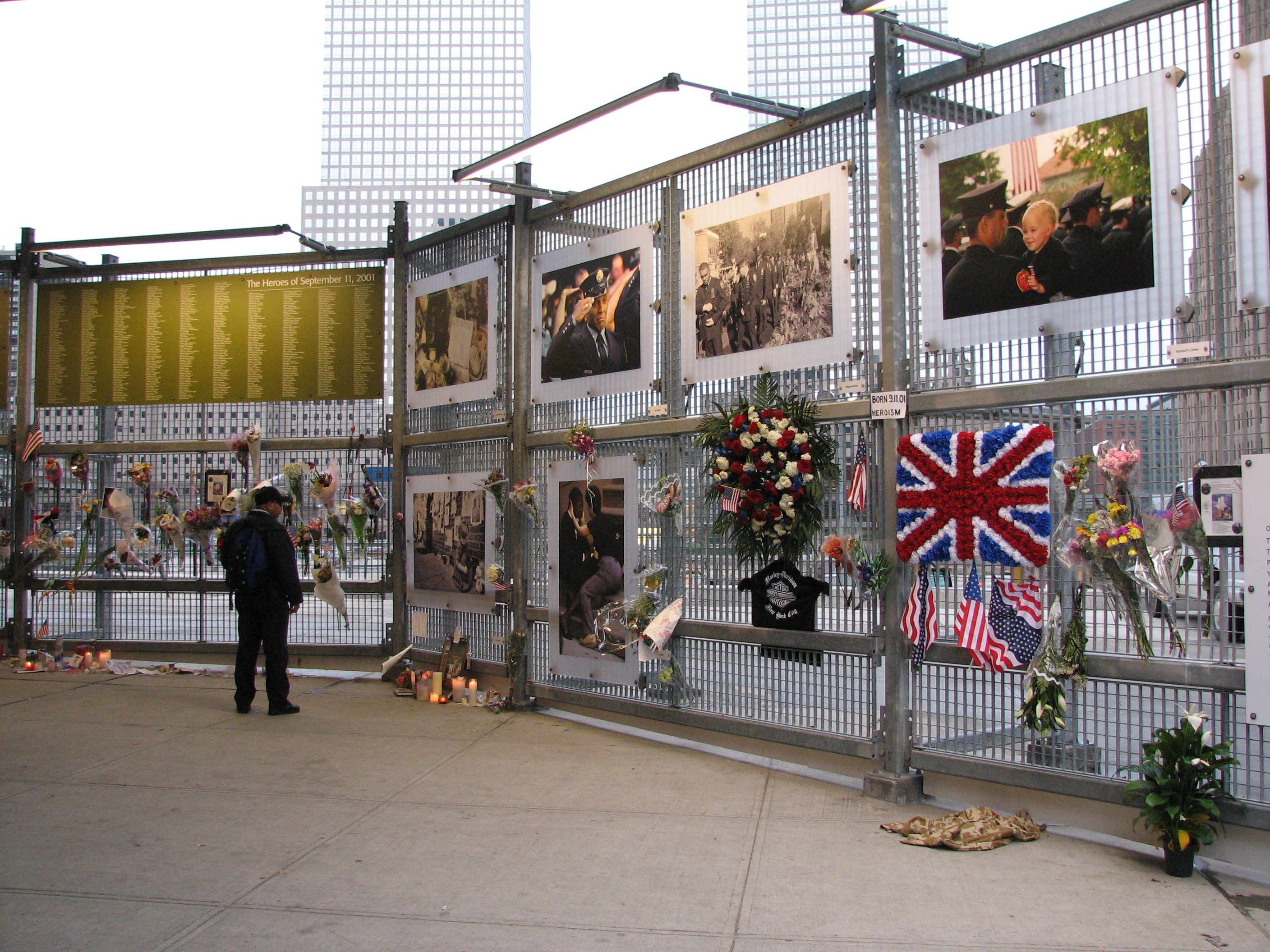 Remembering 9/11 at Ground Zero, near PATH station.